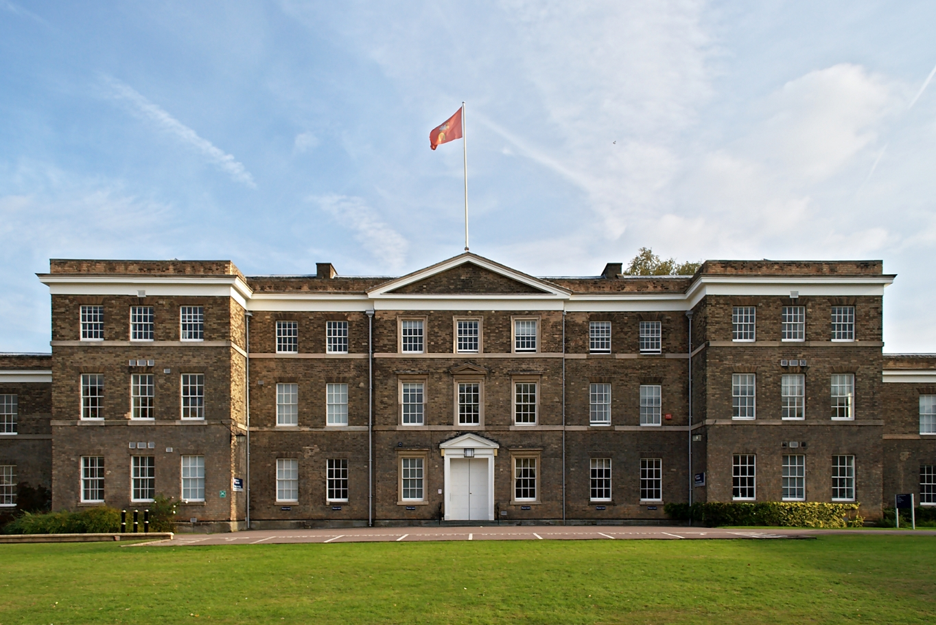 The Fielding Johnson Building at the University of Leicester: a former lunatic asylum now home to the university's administrative staff. A Grade II listed building.[1]